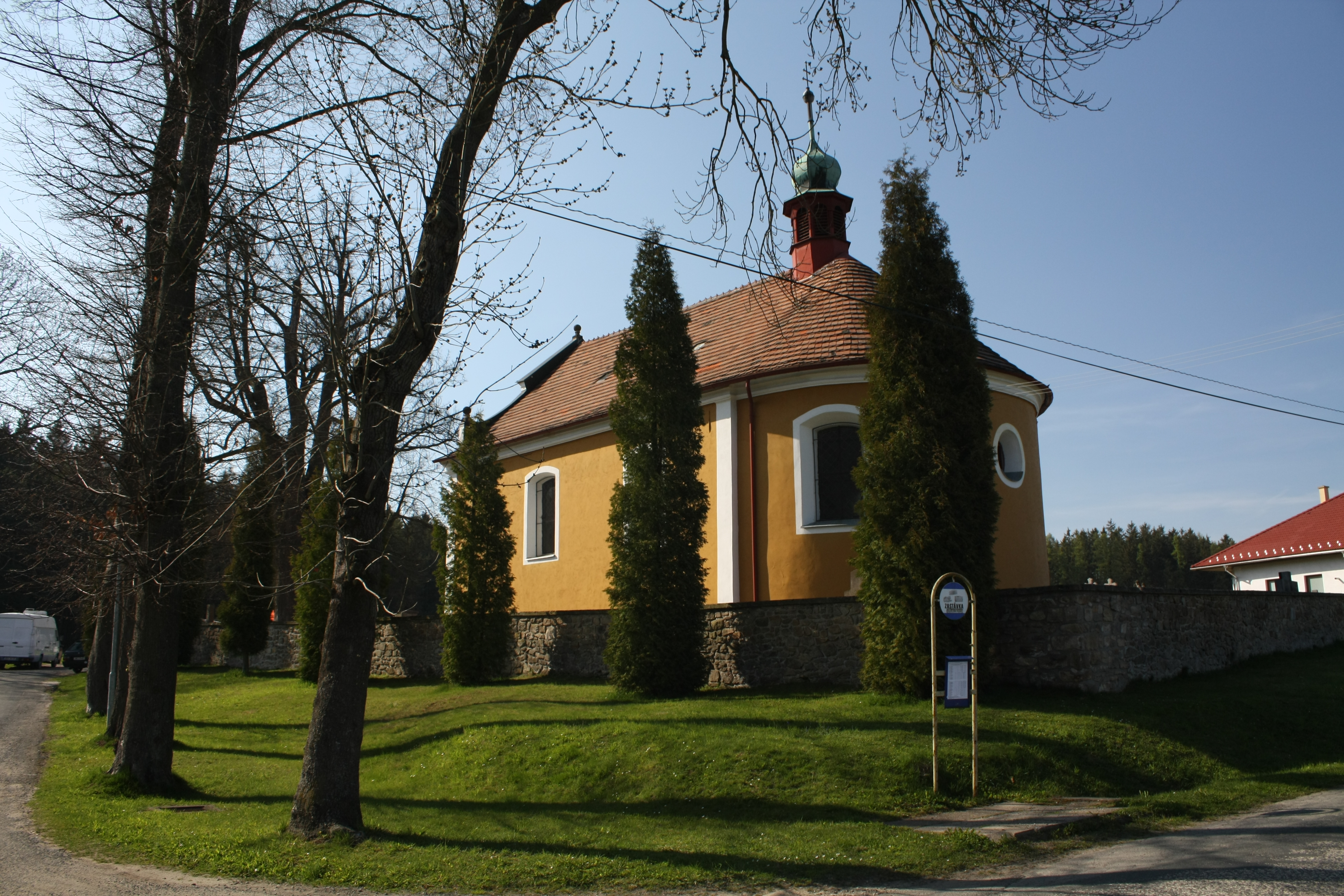 Malé Bojiště, Havlíčkův Brod District, Czech Republic Object location49° 39′ 50.24″ N, 15° 16′ 59.54″ E